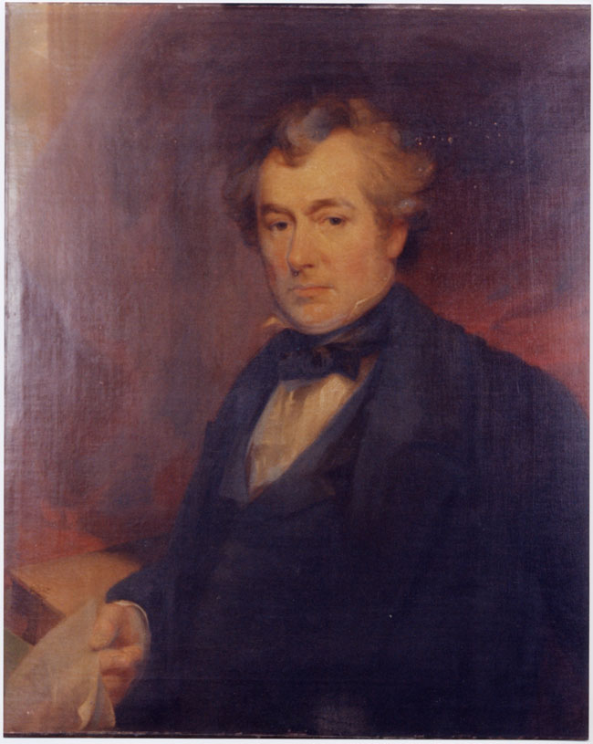 Portrait of Robley Dunglison, first professor of medicine at the University of Virginia. Painted by E.C. Bruce in Philadelphia in 1848.